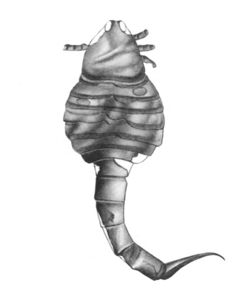 Crop of file in filename